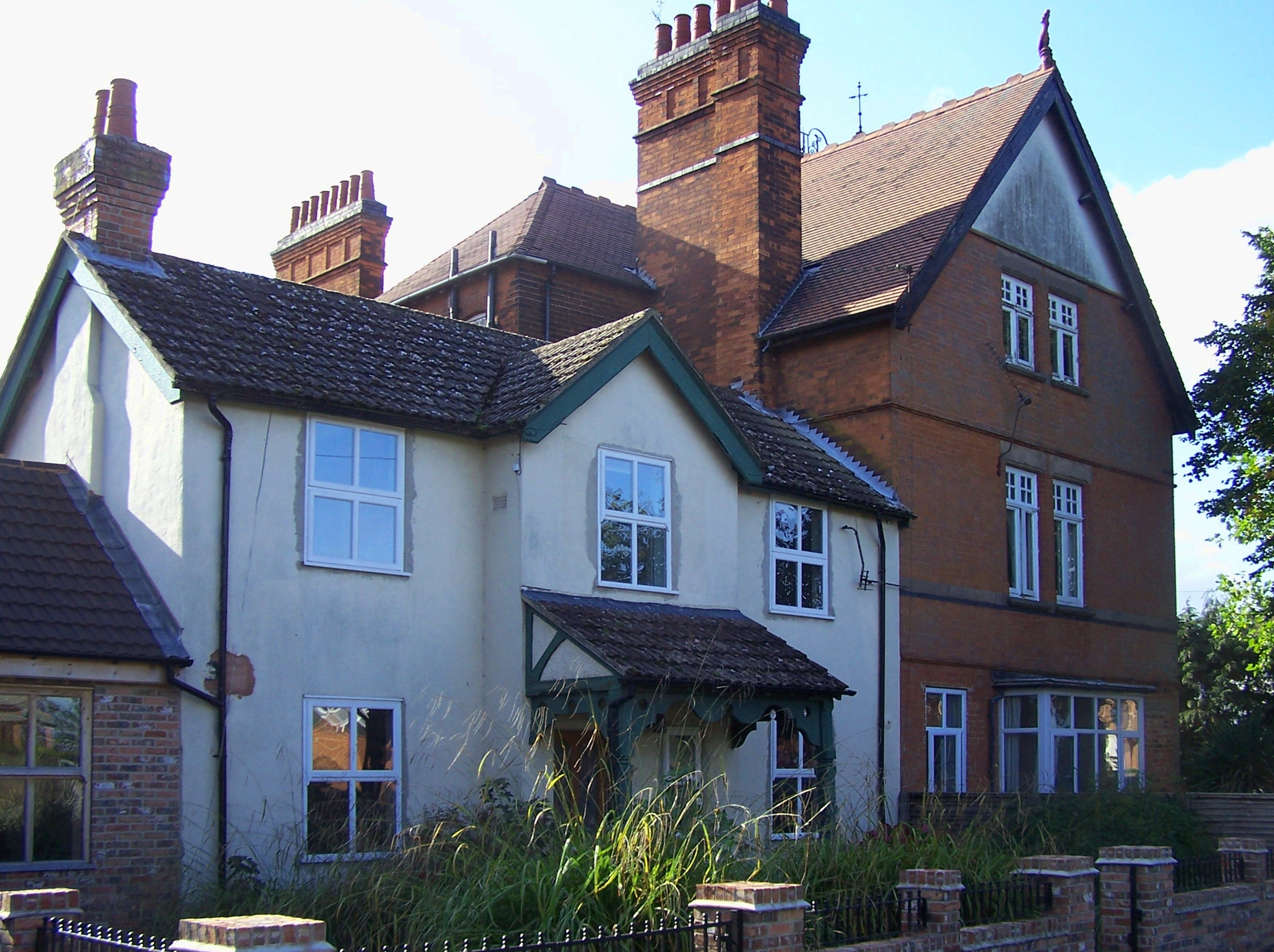 The Towers and the Towers Cottage, Blagreaves Lane, Littleover, Derby